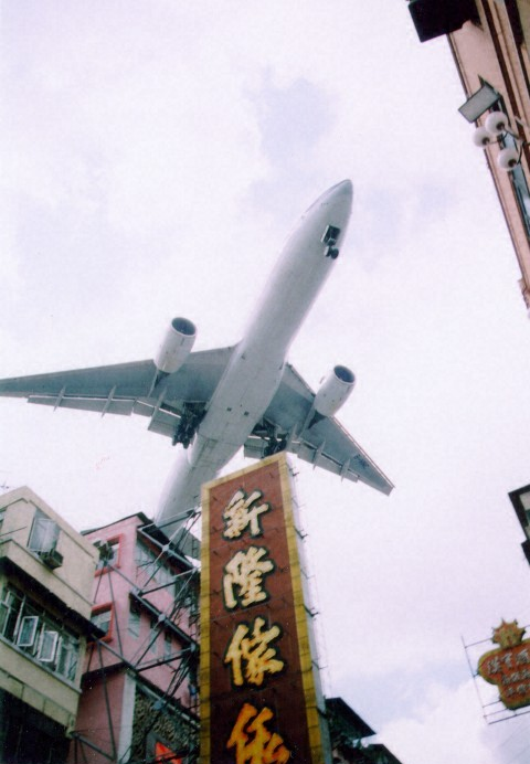 A Boeing 767 on final approach to Kai Tak Airport (VHHH before Aug 1998)